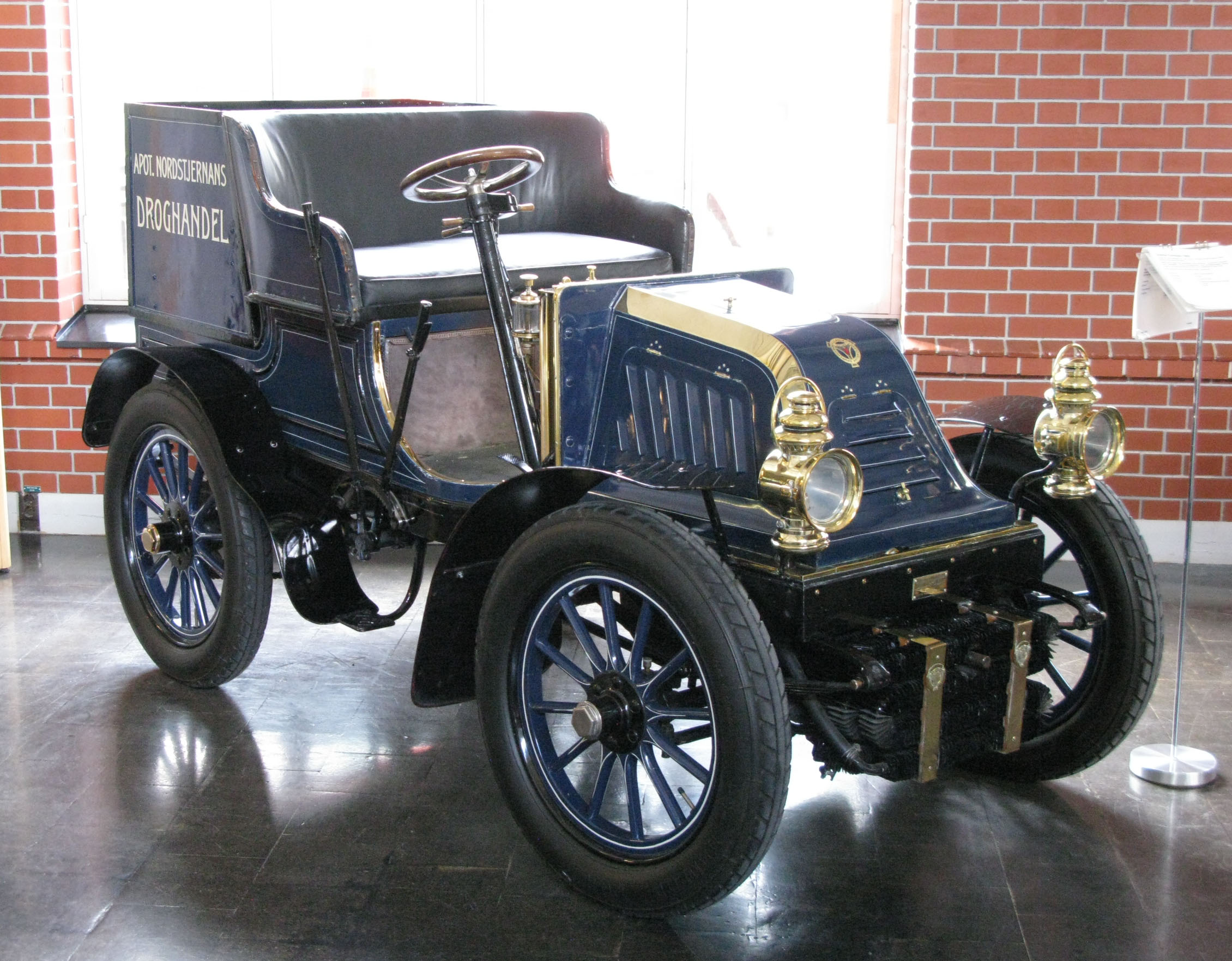 1903 Scania Model A. Location: Scania Museum in Södertälje, Sweden.